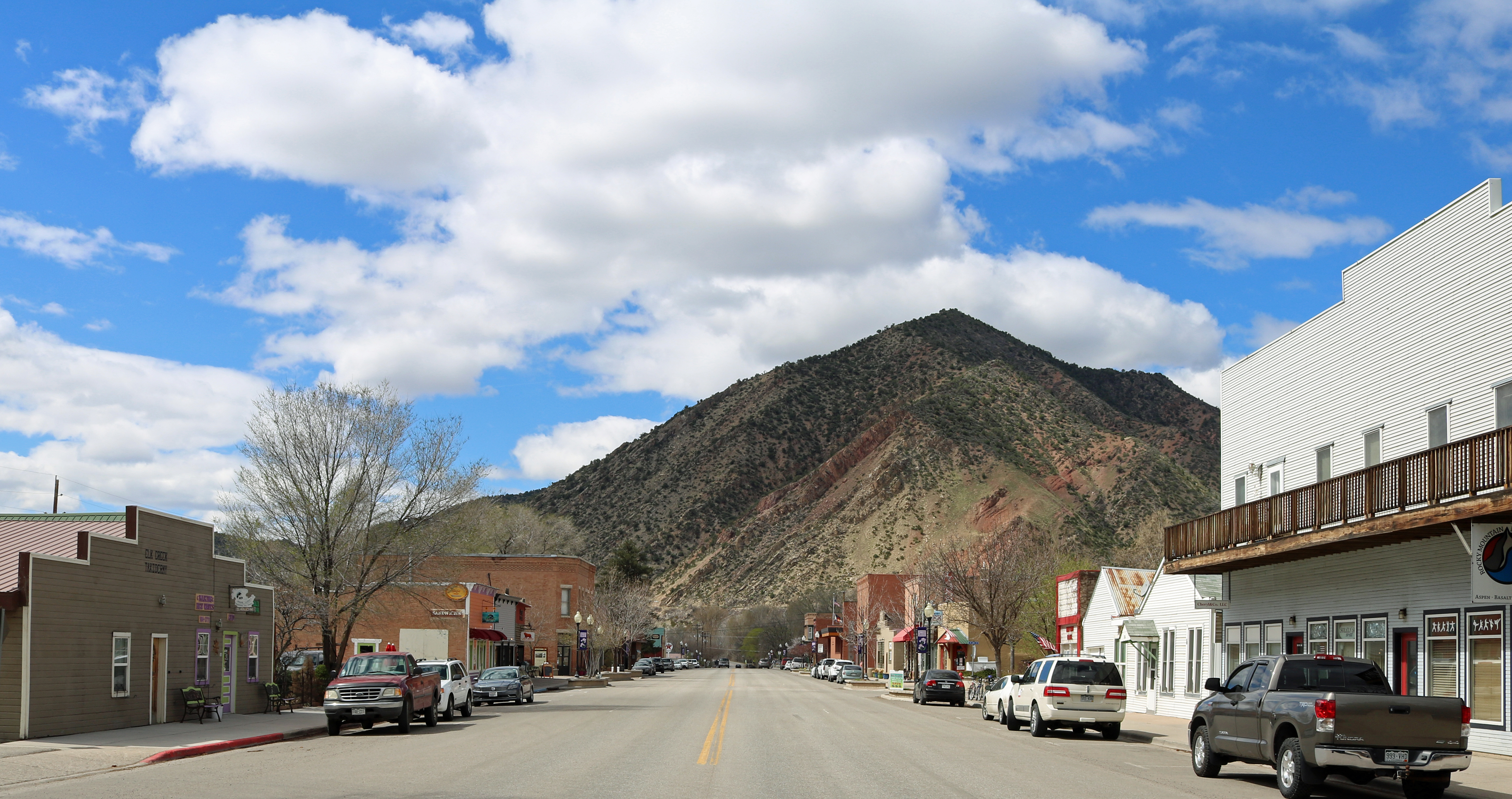 Main Street in New Castle, Colorado. The view is to the west, and the mountain is part of the Grand Hogback.